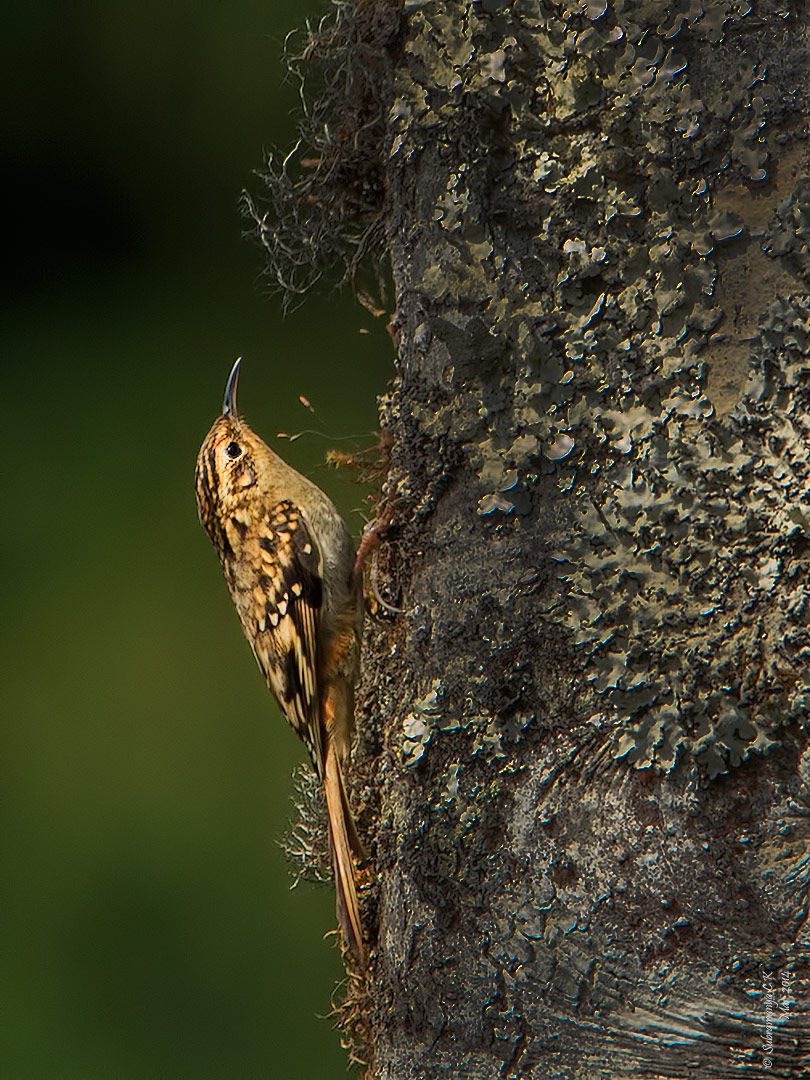 Brown-throated Treecreeper at Lava, West Bengal